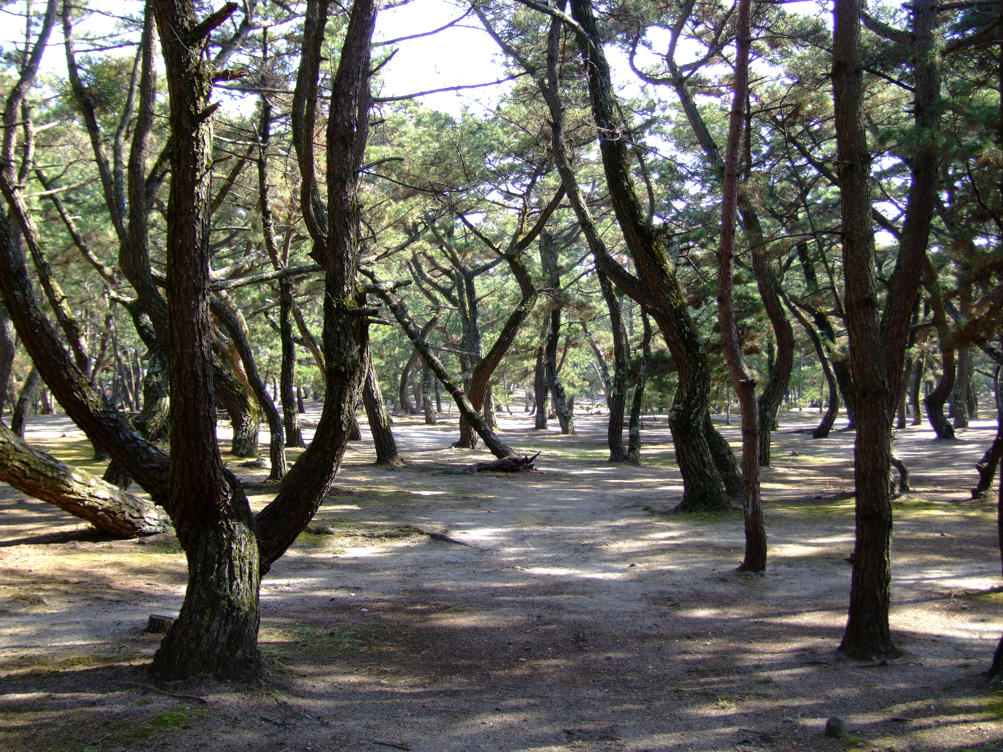 Keinomatsubara Pinus thunbergii forest, Awaji-island.